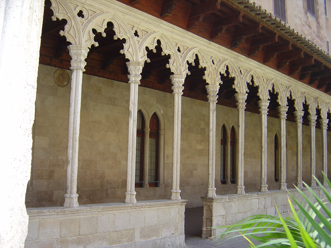 Claustro del convento de San Francisco. Palma de Mallorca. España